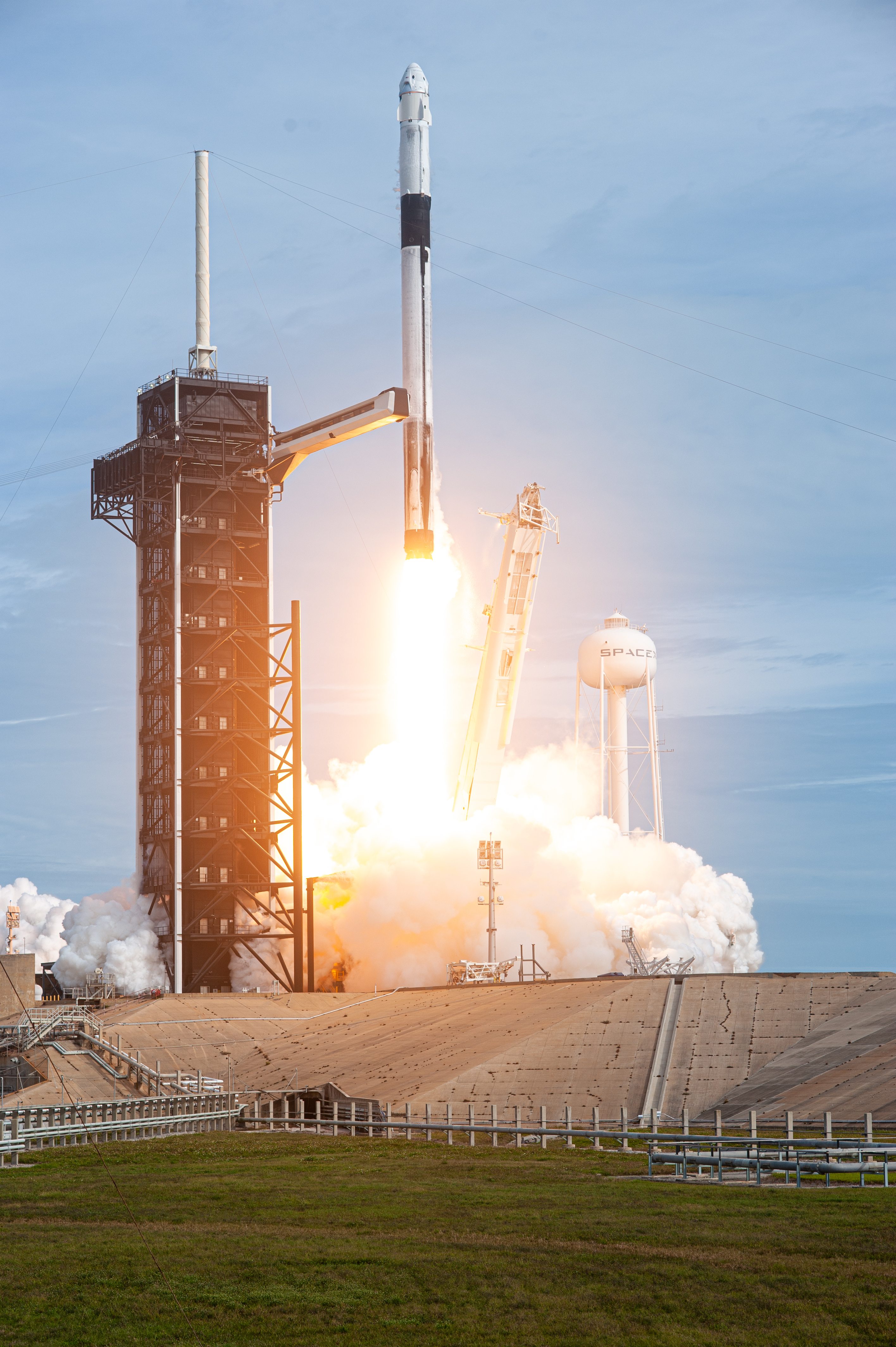 A SpaceX Falcon 9 rocket lifts off from Launch Complex 39A at NASA’s Kennedy Space Center in Florida at 10:30 a.m. EST on Jan. 19, 2020, carrying the Crew Dragon spacecraft on the company’s uncrewed In-Flight Abort Test. The flight test demonstrated the spacecraft’s escape capabilities in preparation for crewed flights to the International Space Station as part of the agency’s Commercial Crew Program.